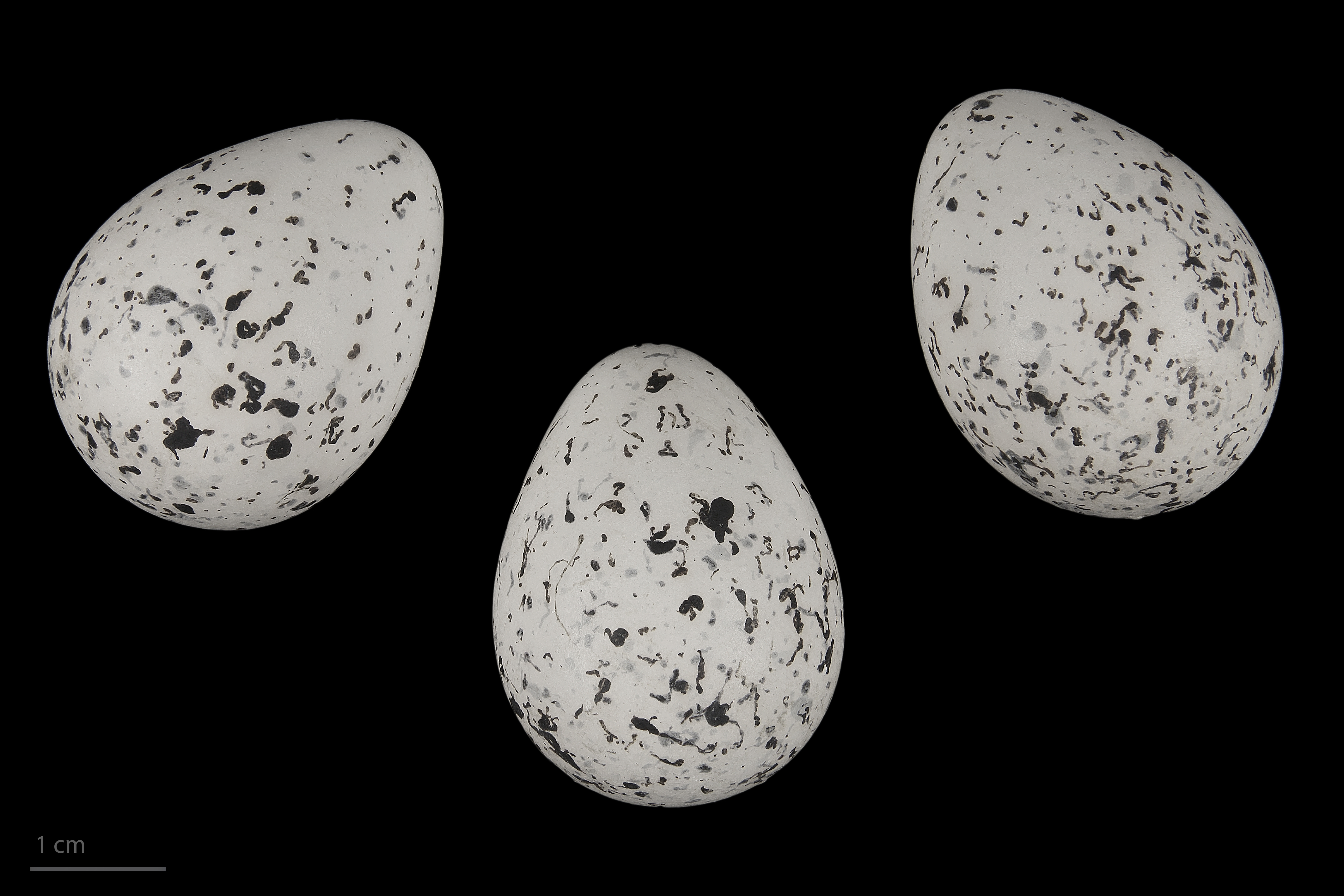 Eggs of Charadrius dubius curonicus Three specimens of the same spawn ; collection of Jacques Perrin de Brichambaut.